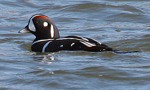 Harlequin Duck, Jan. 2007, Ibaraki JAPAN